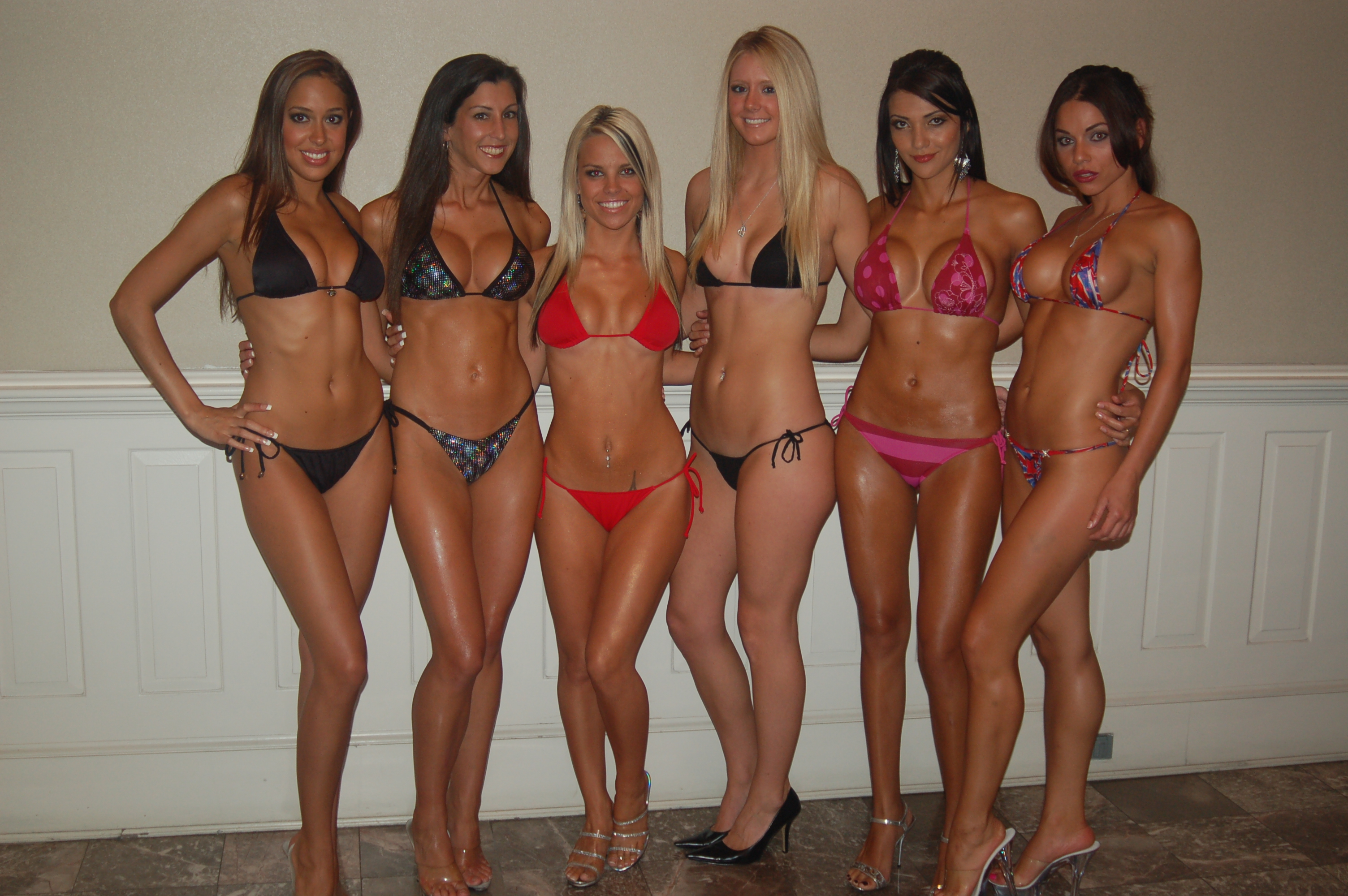 Bridges Bikini Contest, August 2008.